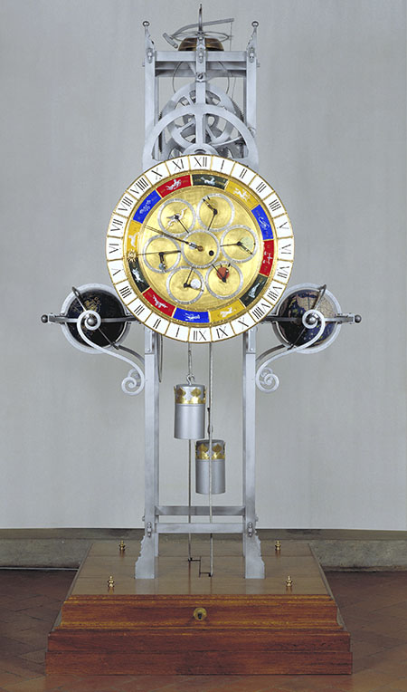 Clock of the planets build by Lorenzo della Volpaia